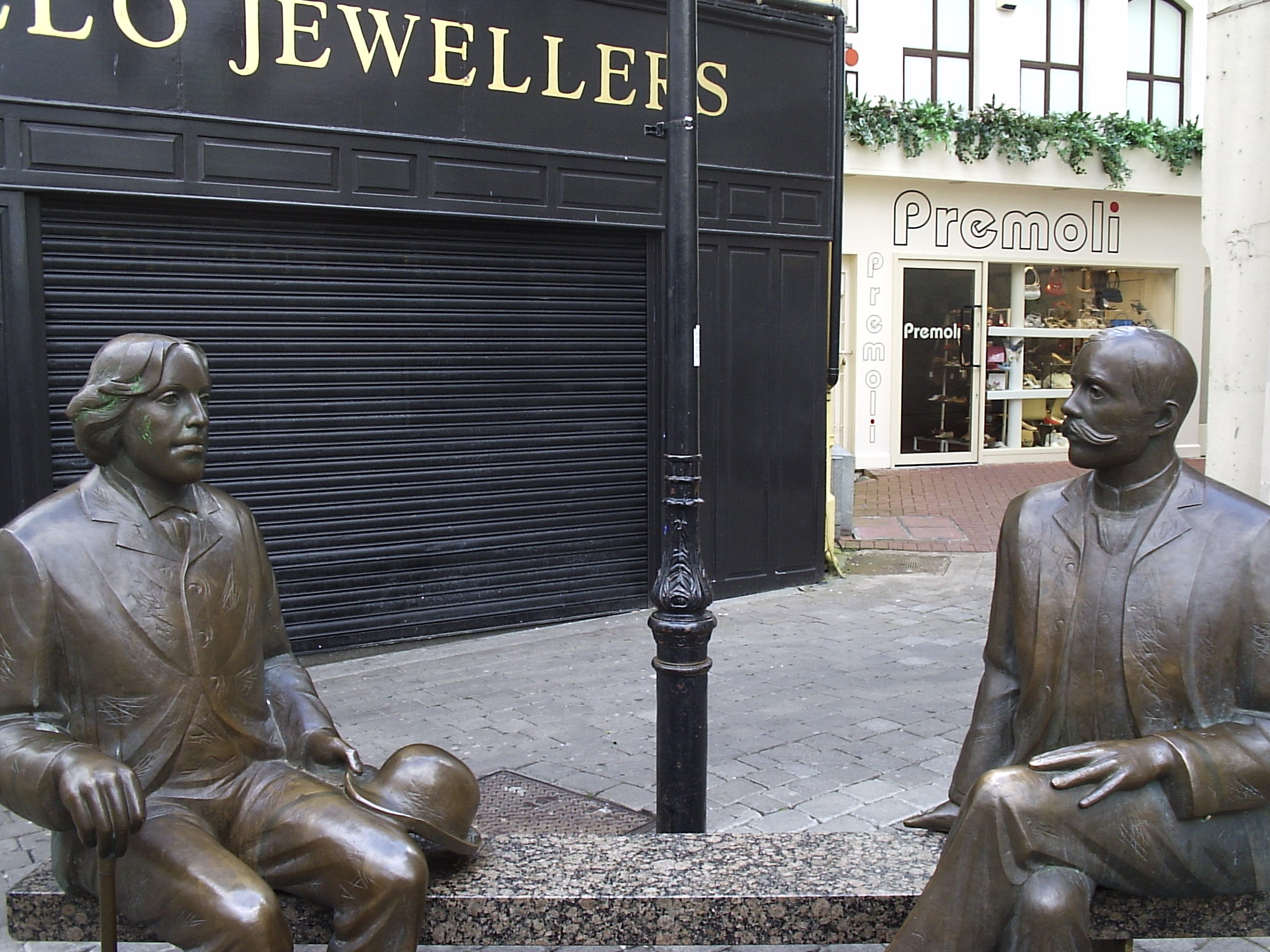 Statues of Oscar Wild et Eduard Vilde